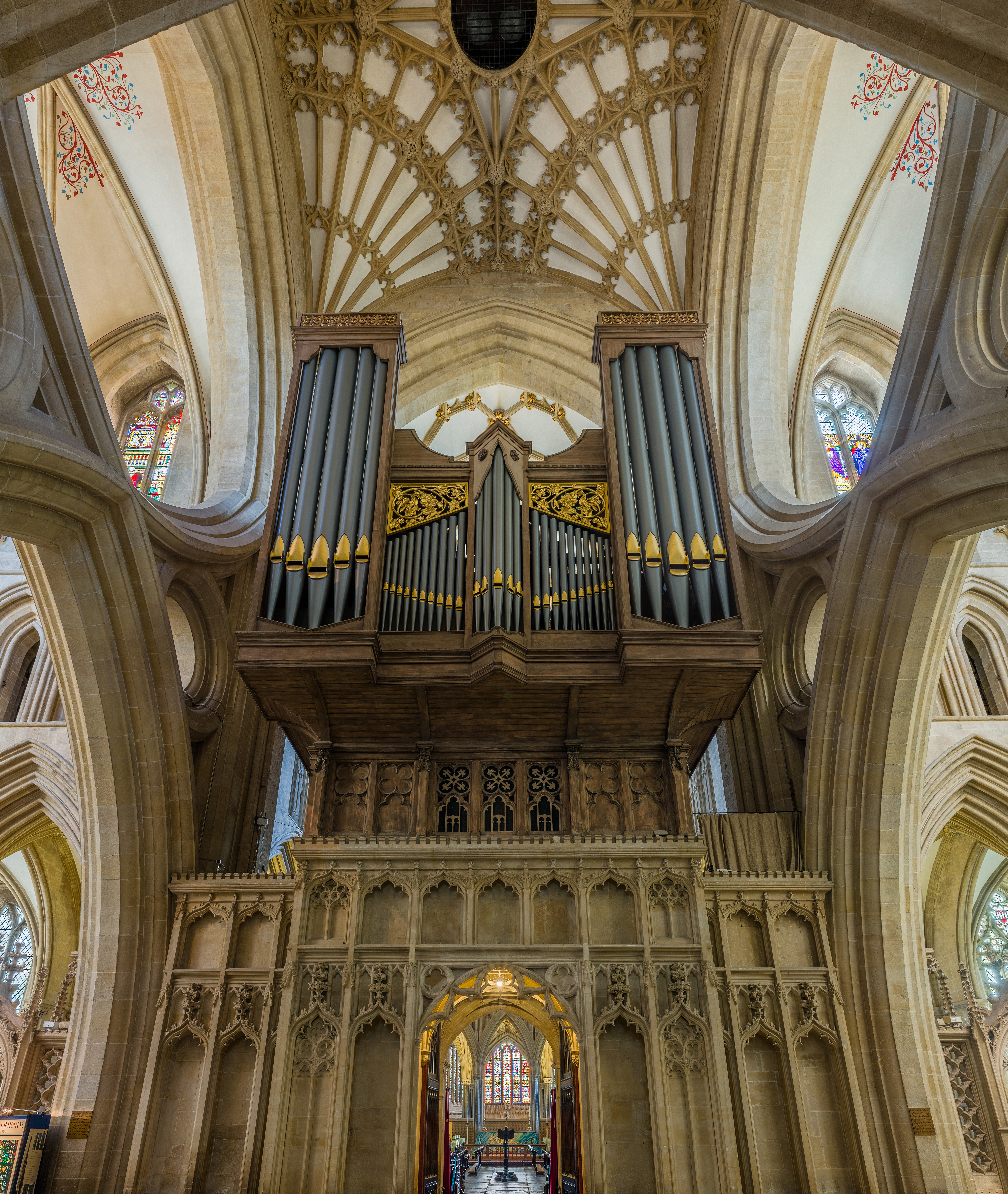 Wells Cathedral's organ, viewed looking upwards from within the inverted arches of the central tower.